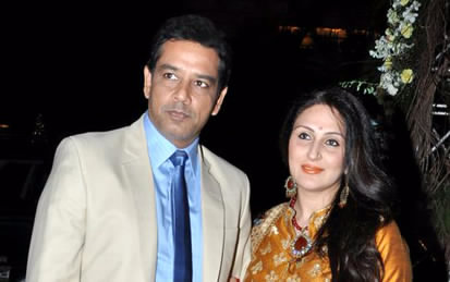 Juhi Babbar and Anup Soni grace Abhinav & Ashima Shukla's wedding reception